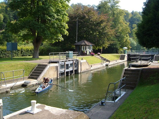 Cookham Lock Looking down the very neatly-maintained lock from beside the upper gate, with the lock-keeper's cottage.